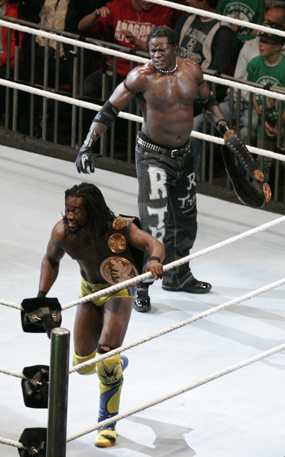 WWE Tag Team Champions Kofi Kingston (front) and R-Truth (back) at a WWE house show in August 2012. Cropped from original.